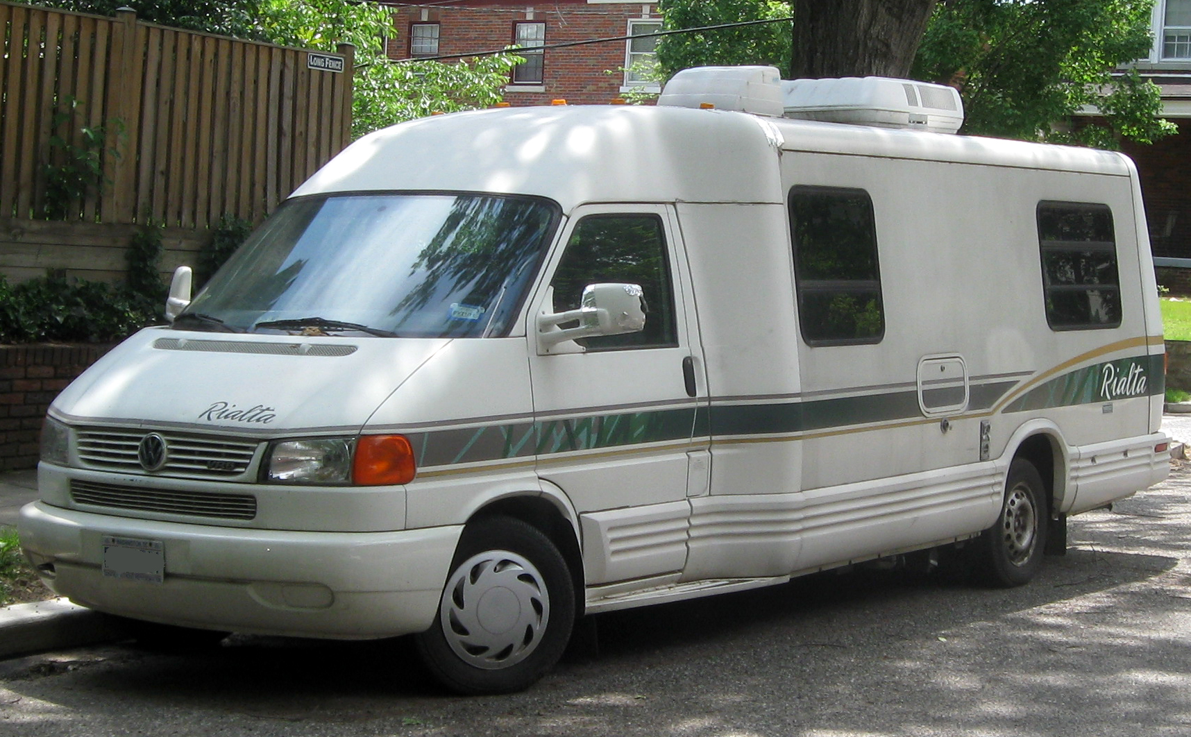 Volkswagen Eurovan Rialta motorhome photographed in Washington, D.C., USA.